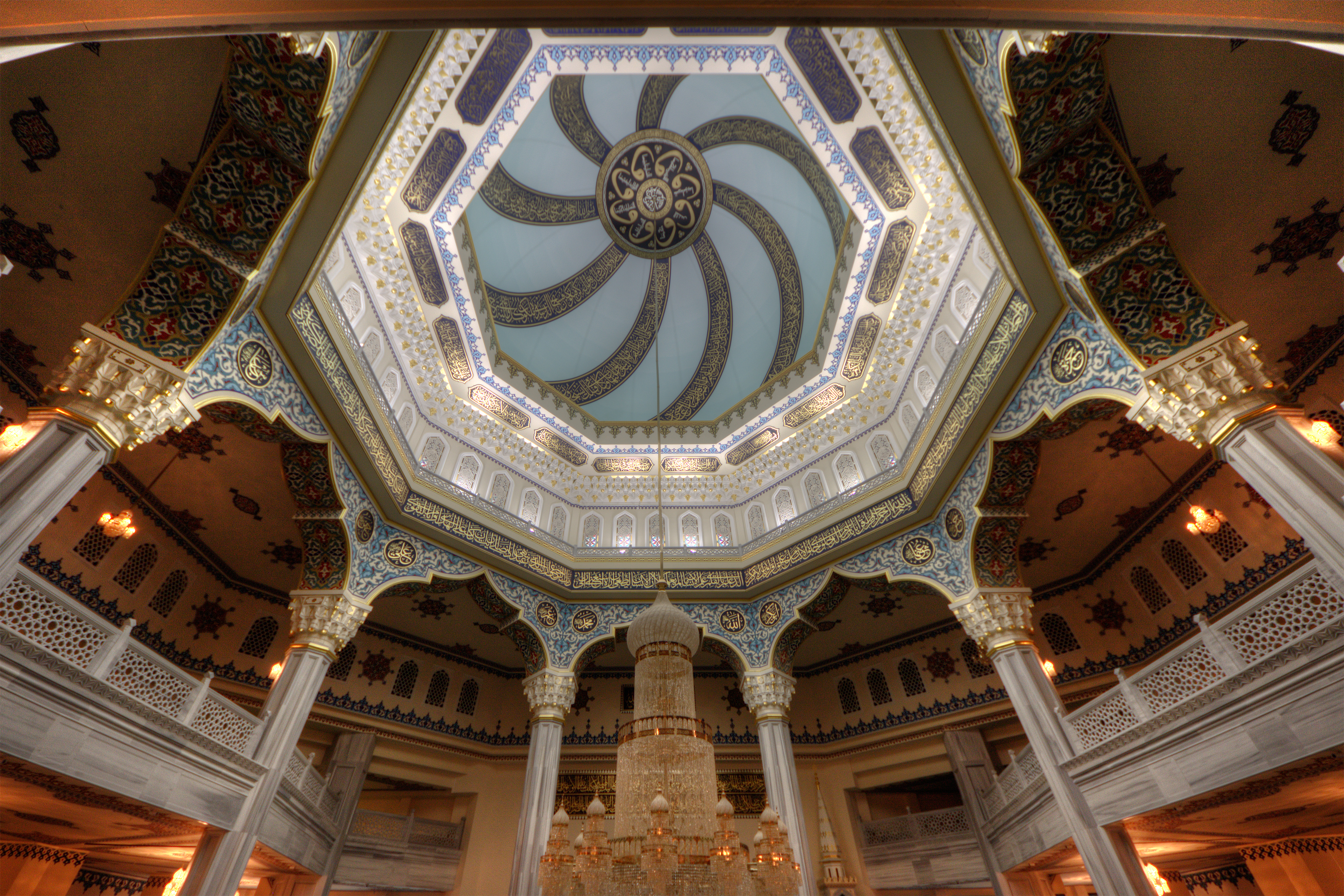 Moscow Cathedral Mosque (new), interior